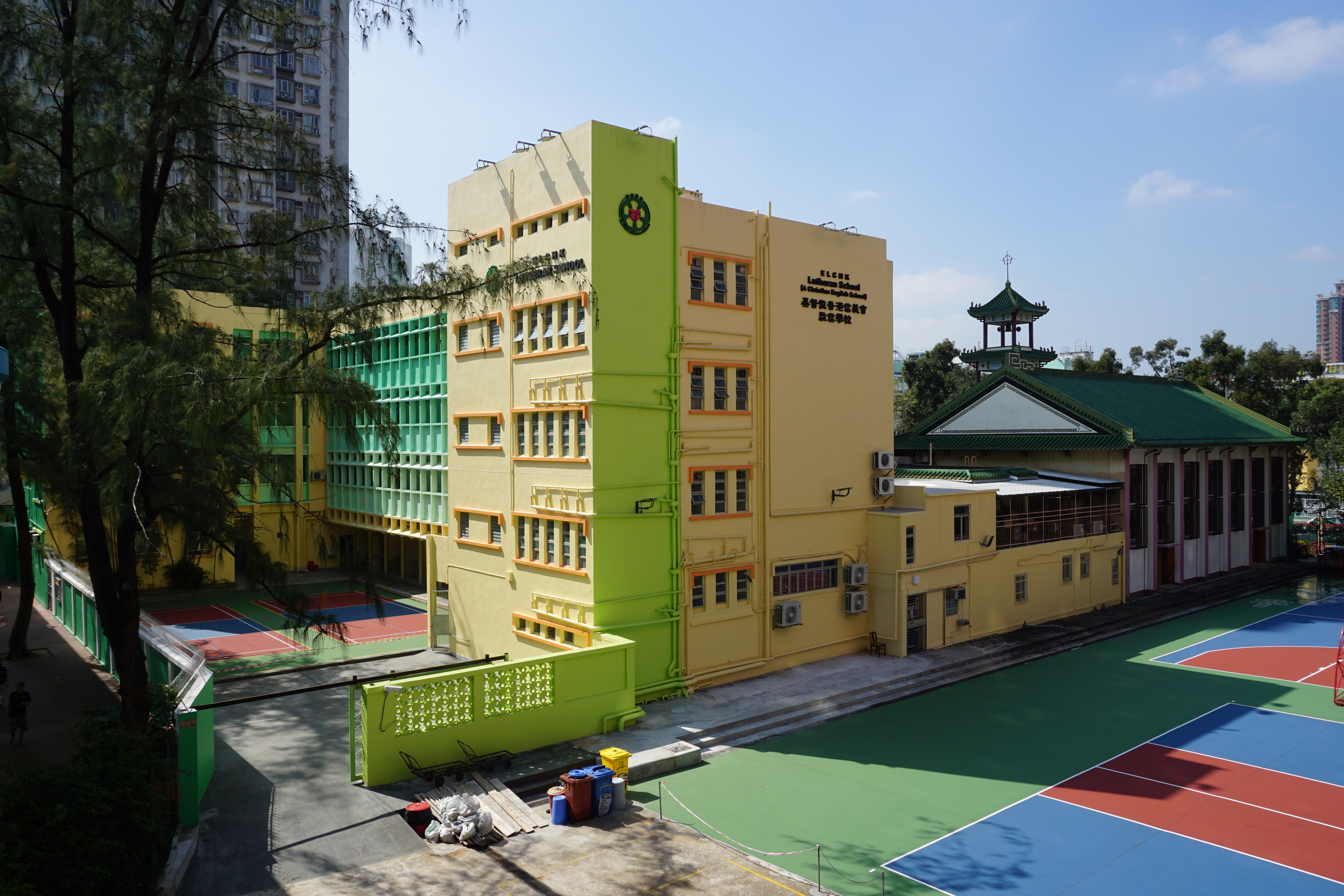 ELCHK Lutheran School in Long Ping, Hong Kong.